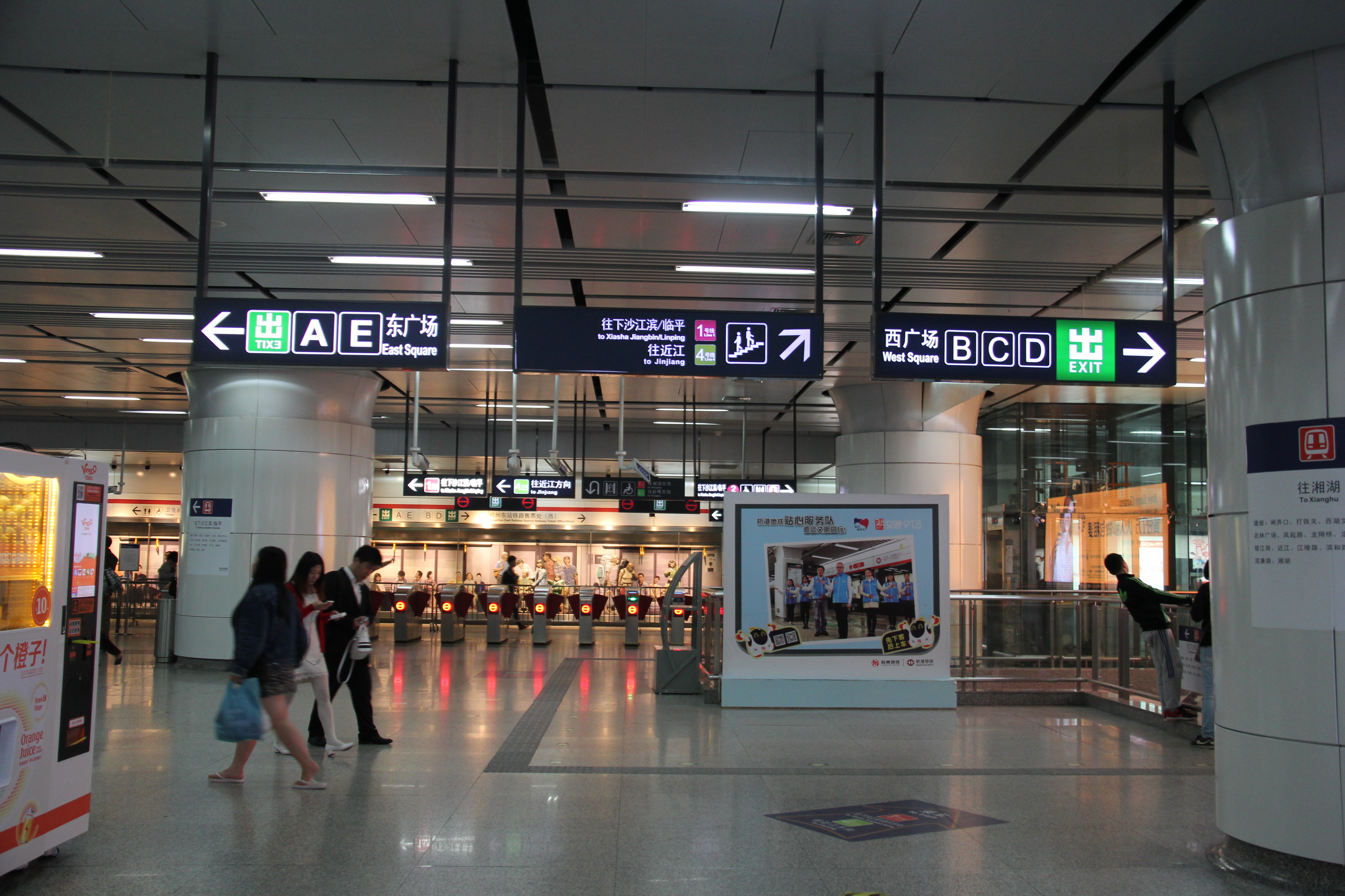 201605 Main Hall of HZMTR East Railway Station